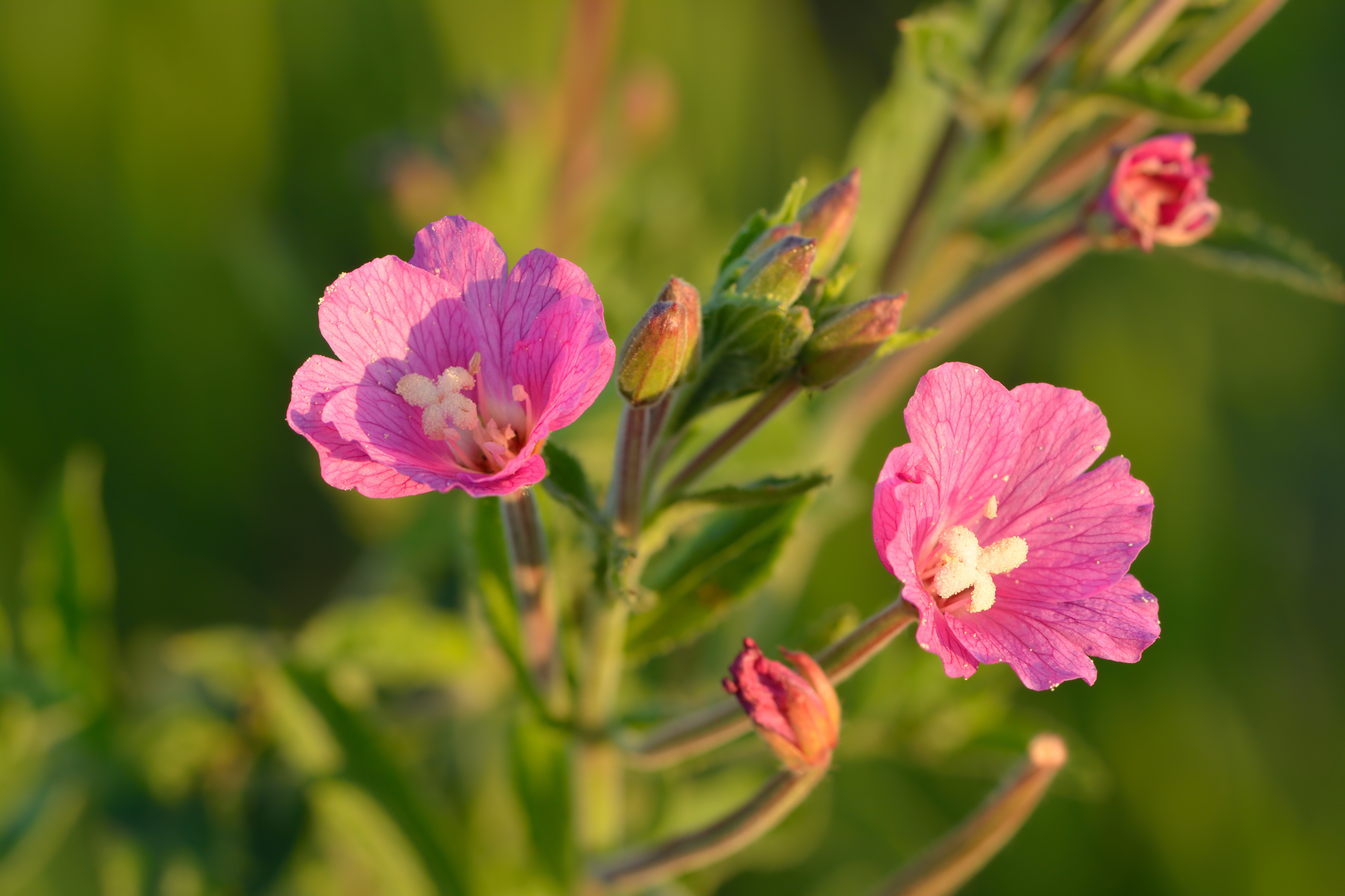 Epilobium hirsutum - great willowherb. Keila, Northwestern Estonia.